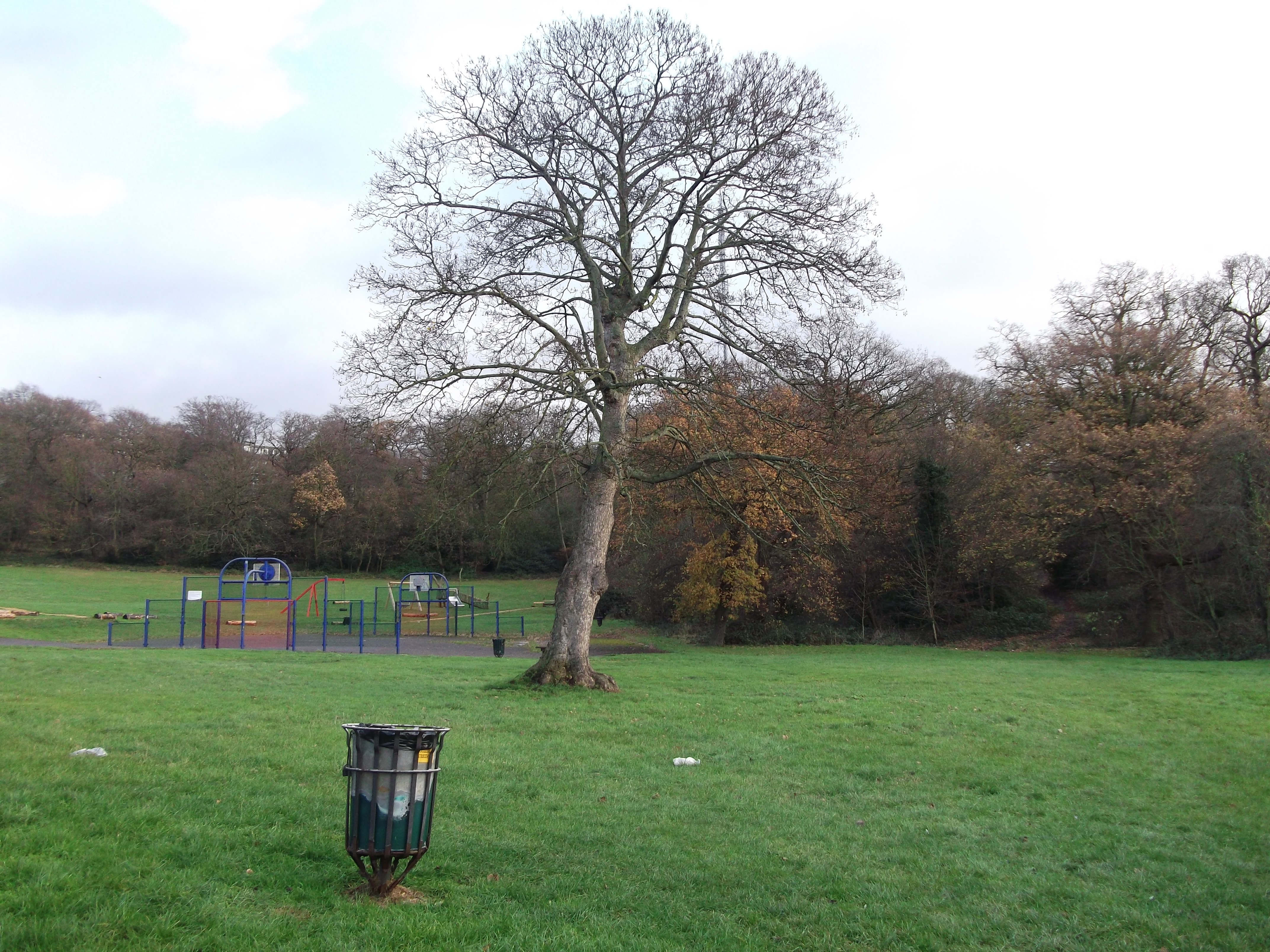 The Lawns, Upper Norwood